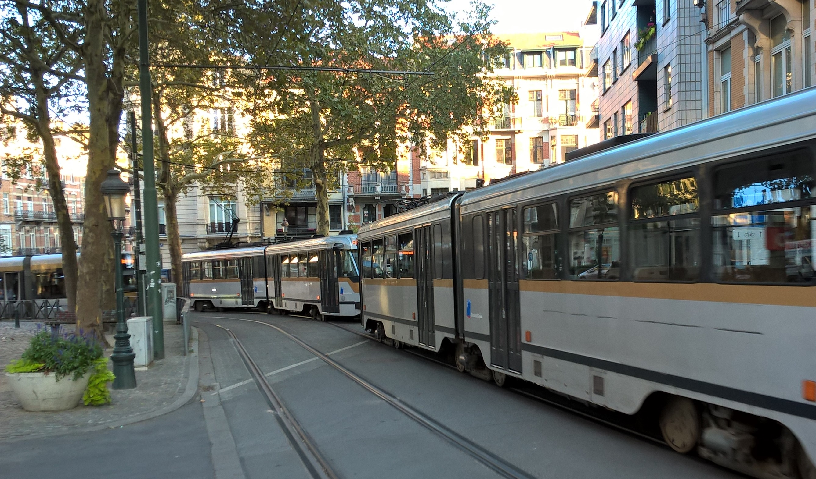 Coupled PCC trams on test, Place Van Meenen, Brussels, 18 September 2018